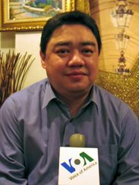 VOA Interview with Wu'erkaixi